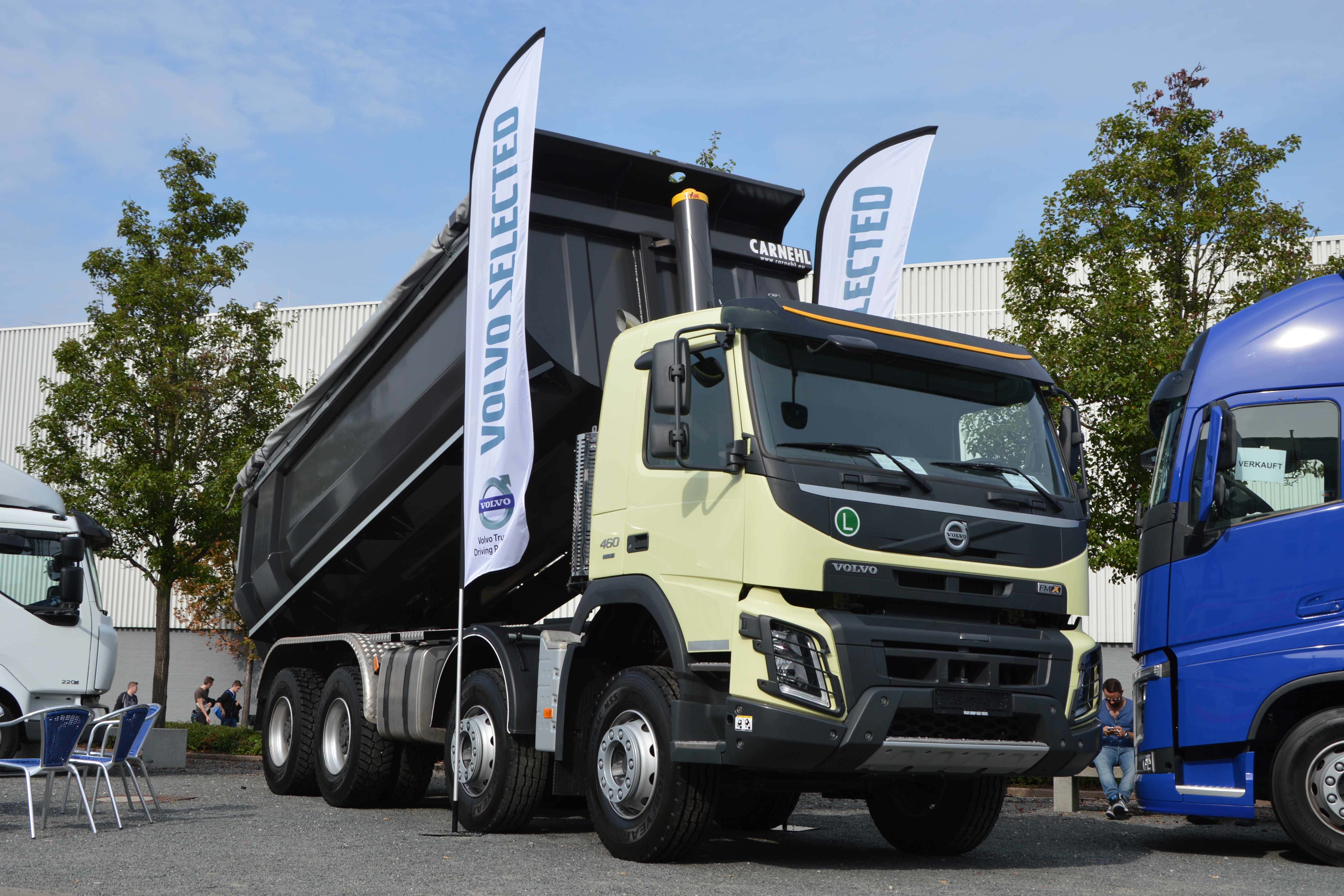 Volvo FMX 460 Hinterkipper 8x4. Build 2013. Engine: 345 kW / 469 PS. EURO 6. Photo taken at exhibition IAA 2014 in Hanover, Germany.